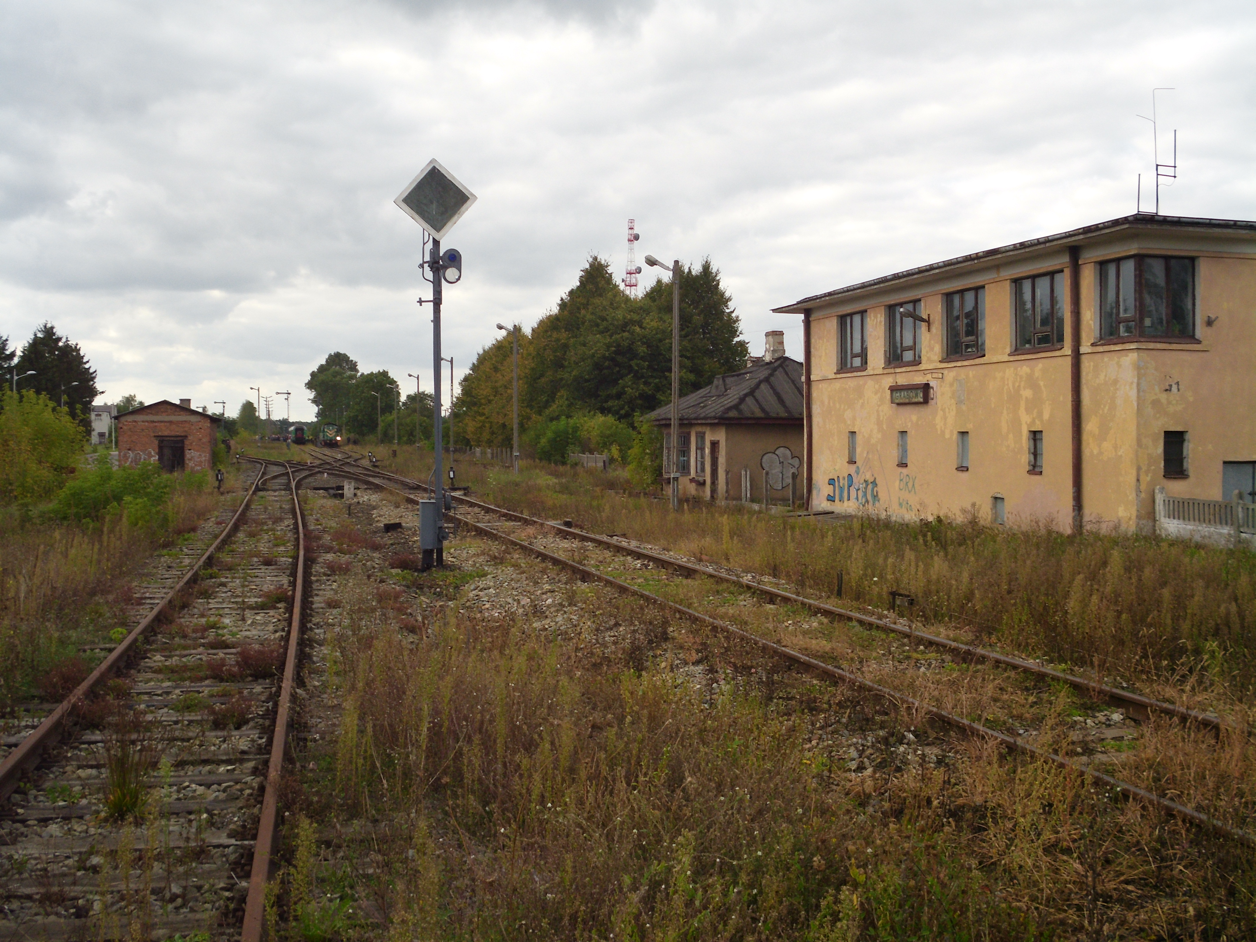 Signal box at a train station in Grabowo, Poland, on Ostrołęka – Szczytno route.